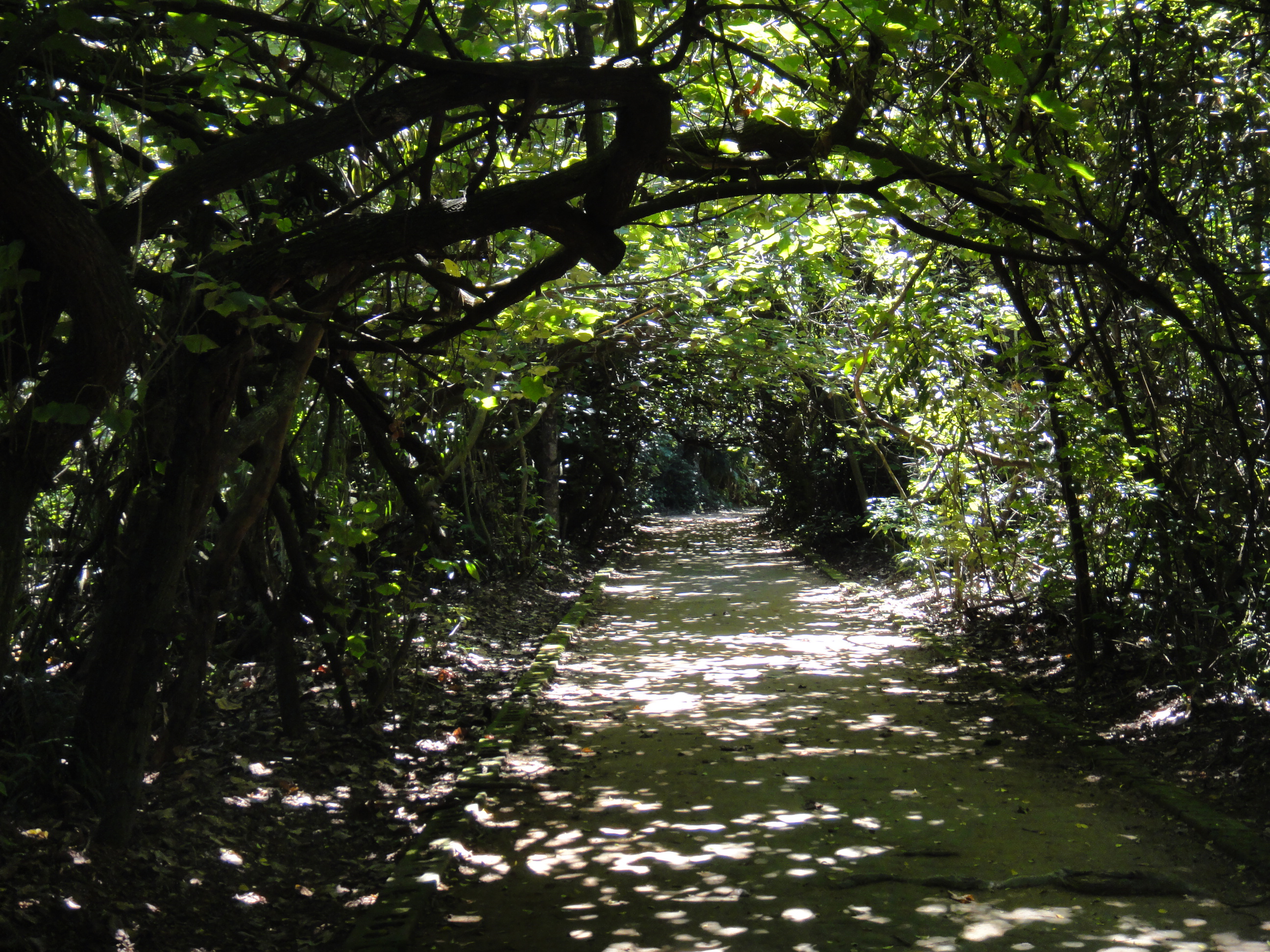 Trail in Marapendi Park, Recreio dos Bandeirantes, Rio de Janeiro